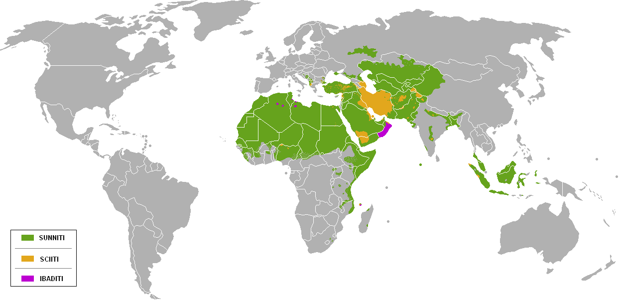 The distribution of the predominant Islamic sectarian afficilations followed in majority-Muslim countries and regions. Green=Sunni, Orange=Shi'ite, Purple=Ibadi